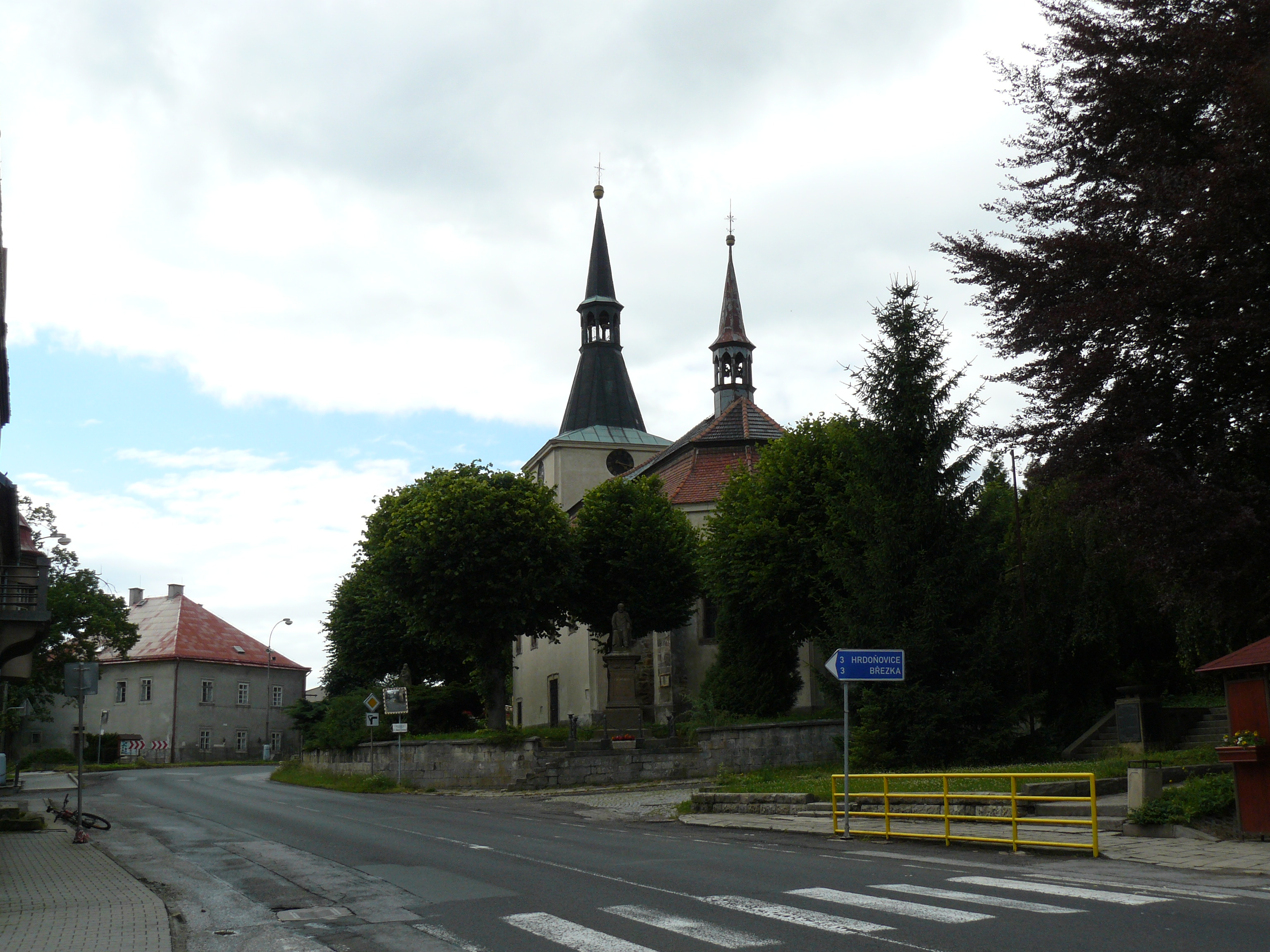 Libuň - Village in Czech Republic